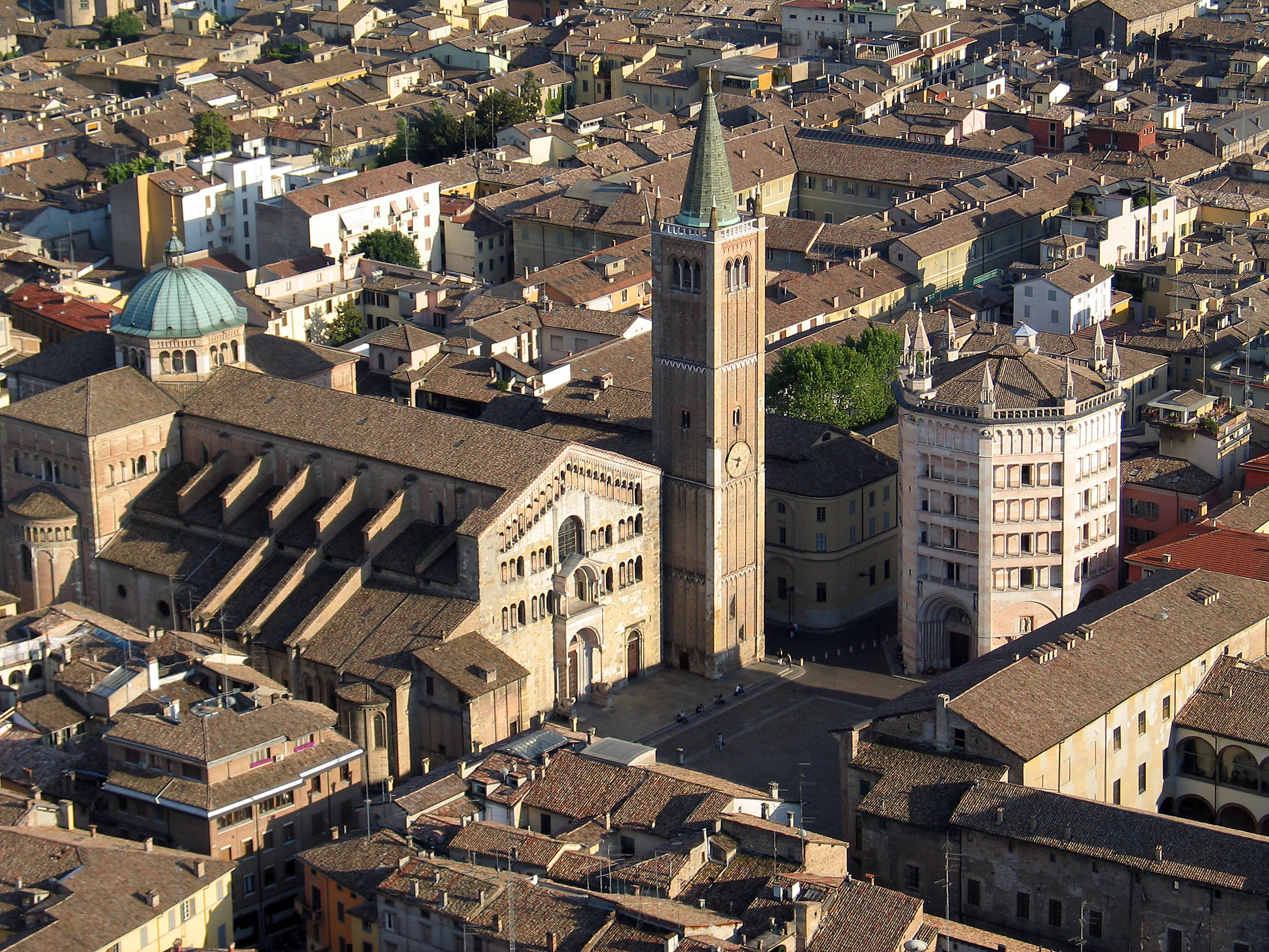 Parma, Italy. Aerial view of Duomo and Battistero.